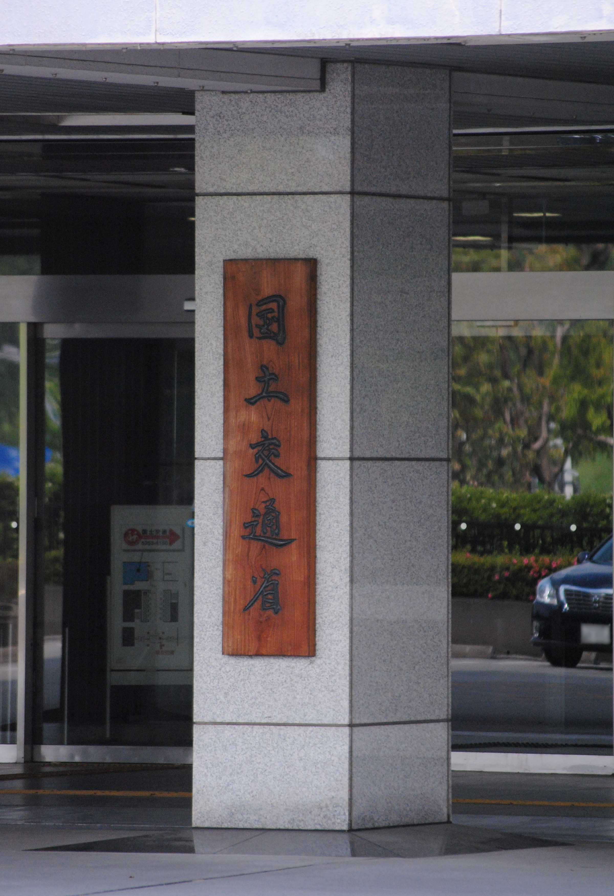 Nameboard of Ministry of Land, Infrastructure, Transport and Tourism, writed by Chikage Oogi